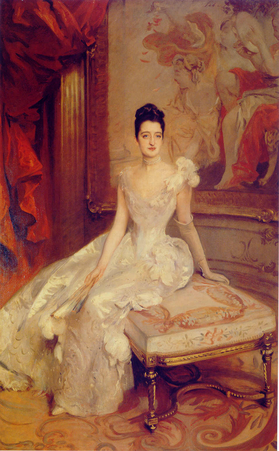 Mrs. Hamilton McKown Twombly (Florence Adele Vanderbilt) 1854-1952 Artist: John Singer Sargent - 1890